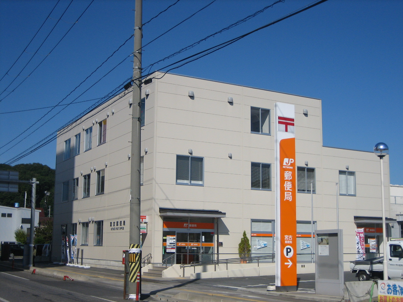 Miyako post office in Iwate, Japan